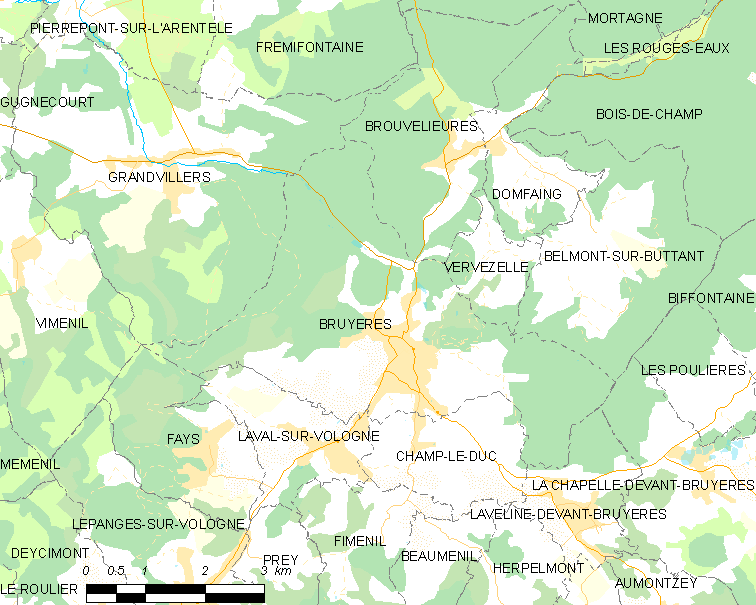 Map of French municipality Bruyères